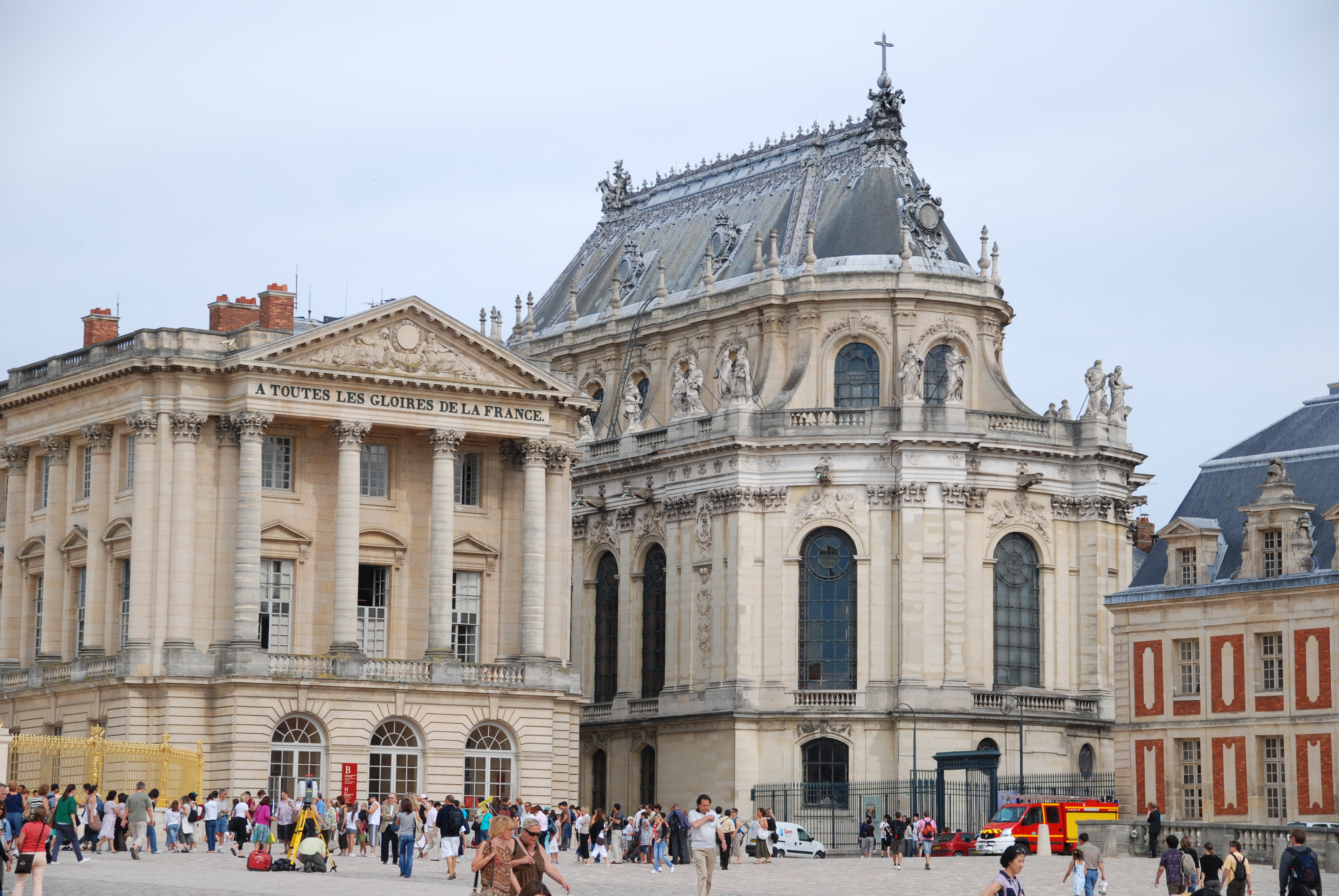 The Royal Chapel of the Palace of Versailles in the centre, left - Gabriel Wing, right - fragment of the Minister's Wing